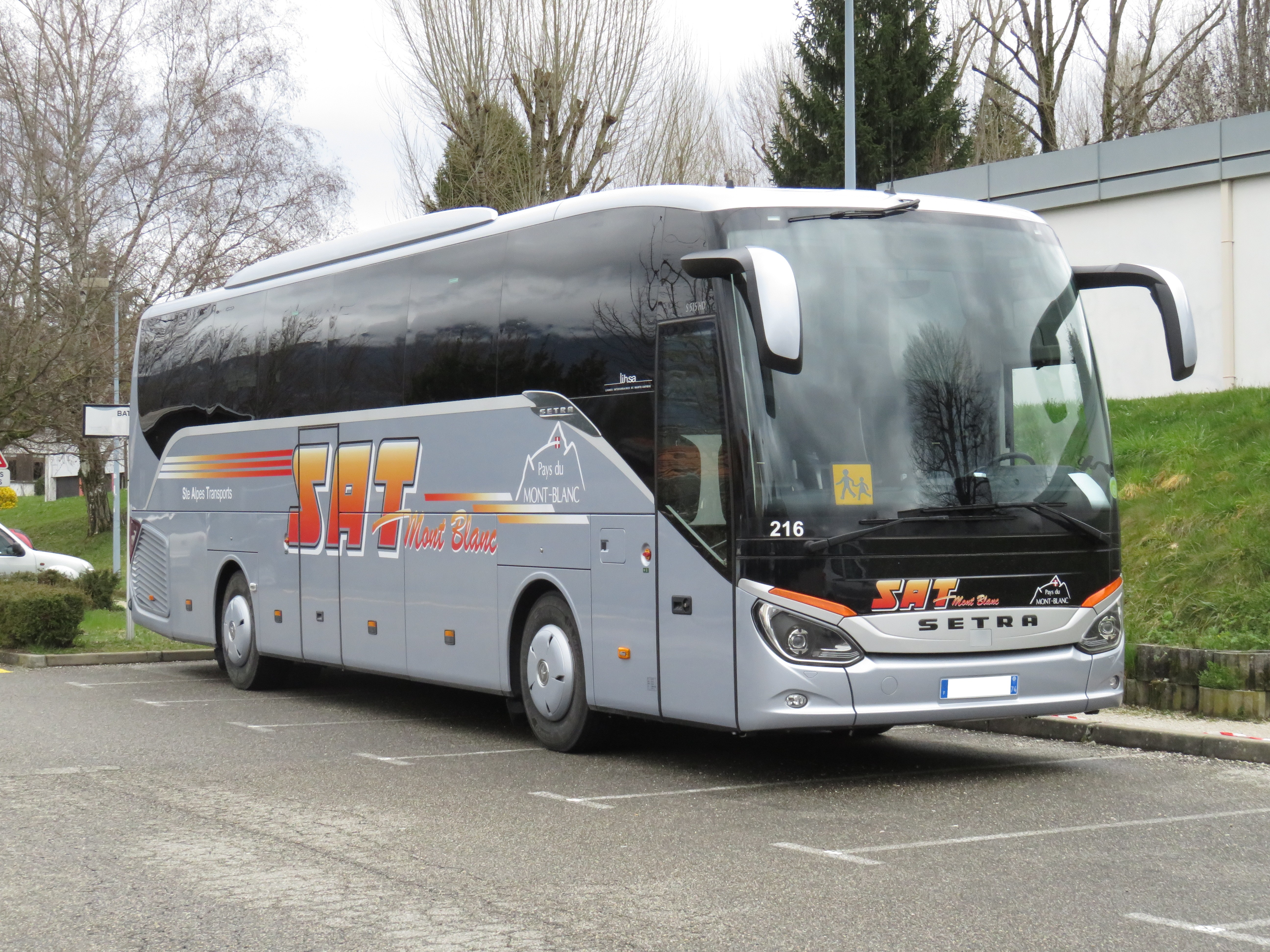 A Setra S 515 HD (n°216 of the SAT) parked in the Rue Robert Barr (Jacob-Bellecombette, France) on March 29, 2018.